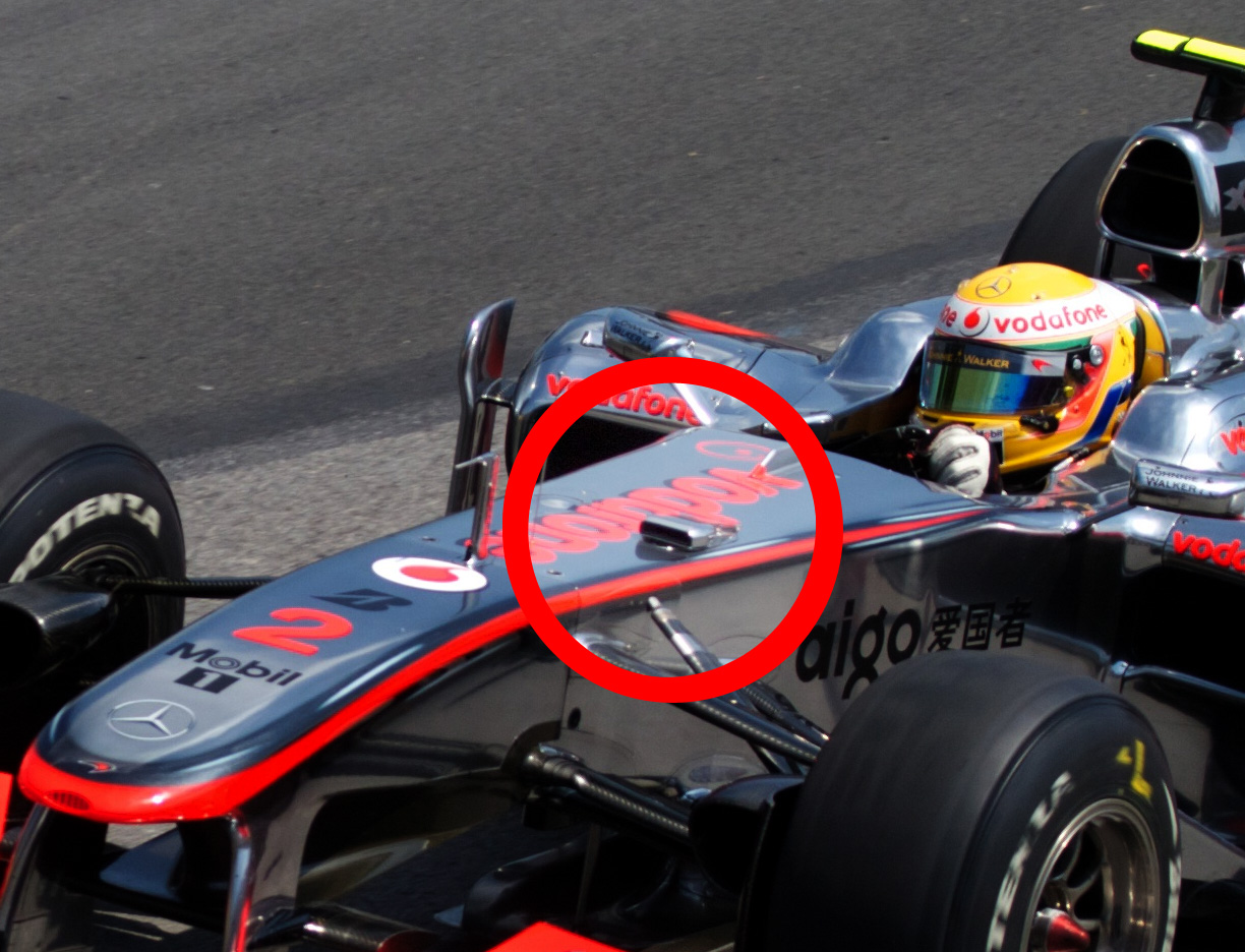 McLaren MP4-25 with focus on f-duct